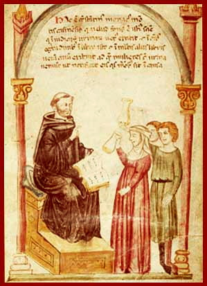 People showing for a diagnose a sample of their urine to the physician Constantine the African; he taught ancient Greek medicine at the Schola Medica Salernitana (Full size image). Constantinus Africanus of Monte Cassino, translator into Latin of Arabic Medical Texts